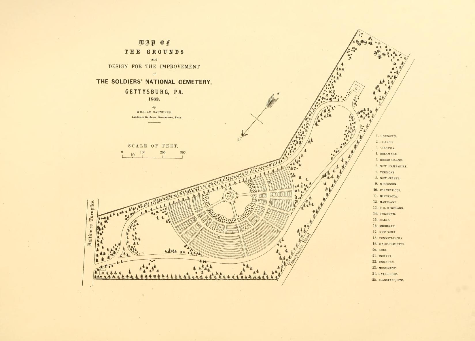 "Map of the Ground and Design for the Improvement of The Soldiers' National Cemetery, Gettysburg, PA. 1863, by William Saunders, Landscape Gardener, Germantown, Pena."